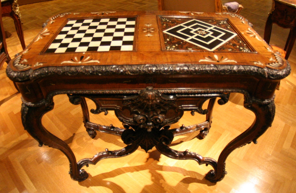 A gaming table constructed in Mainz, Germany (1735), displayed in the Cleveland Museum of Art